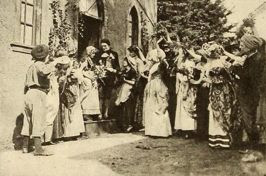 Still from the American film Enoch Arden (1915) depicting the wedding of Enoch (Alfred Paget) and Annie (Lillian Gish), on page 5 of the March 27, 1915 Reel Life magazine.